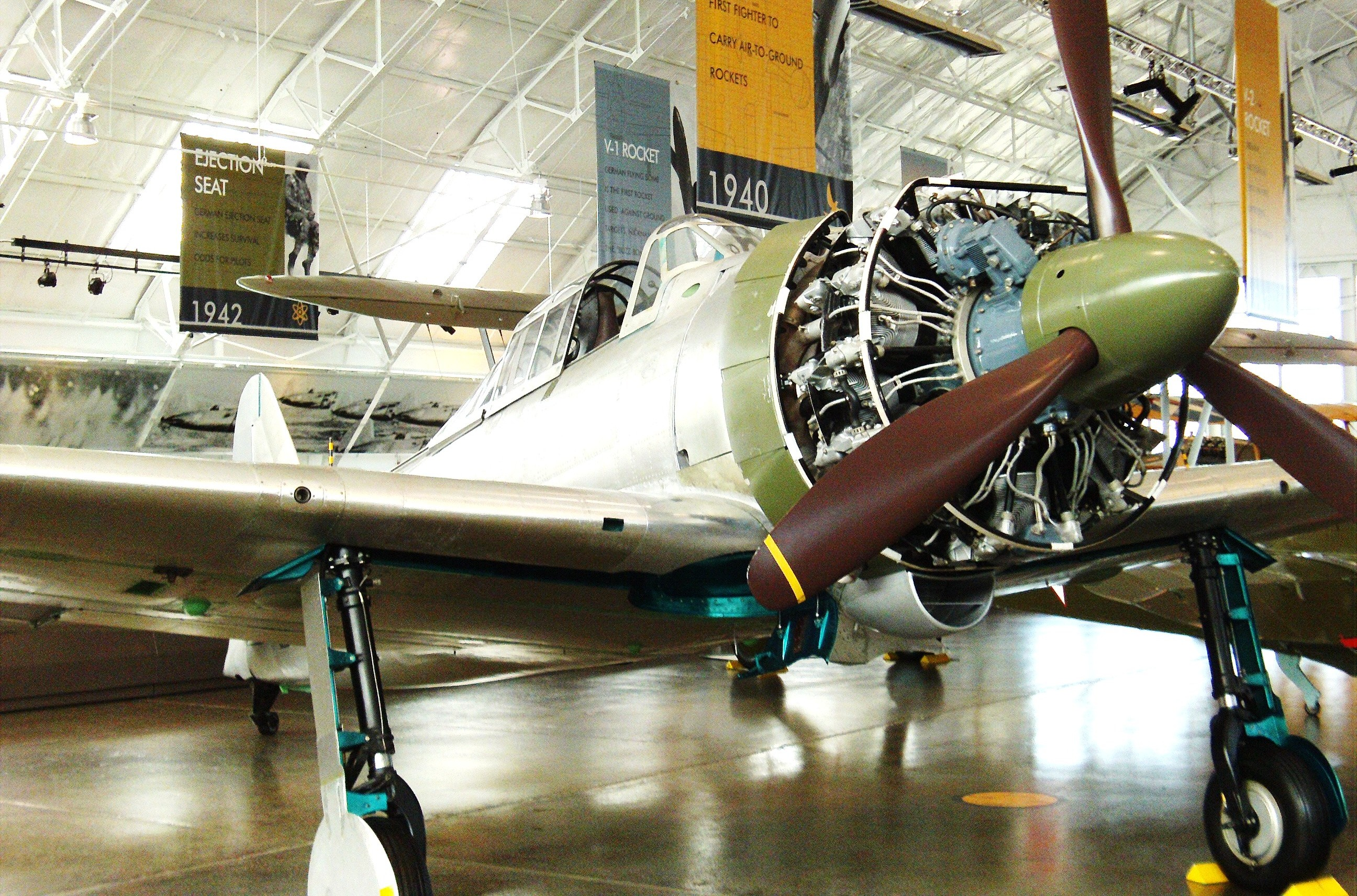 Mitsubishi A6M Zer0 - Paine Field USA (2010) - Front view showing engine.